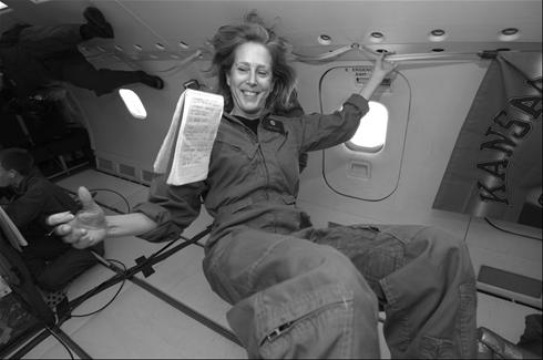 Author Mary Roach experiencing weightlessness on a parabolic flight.